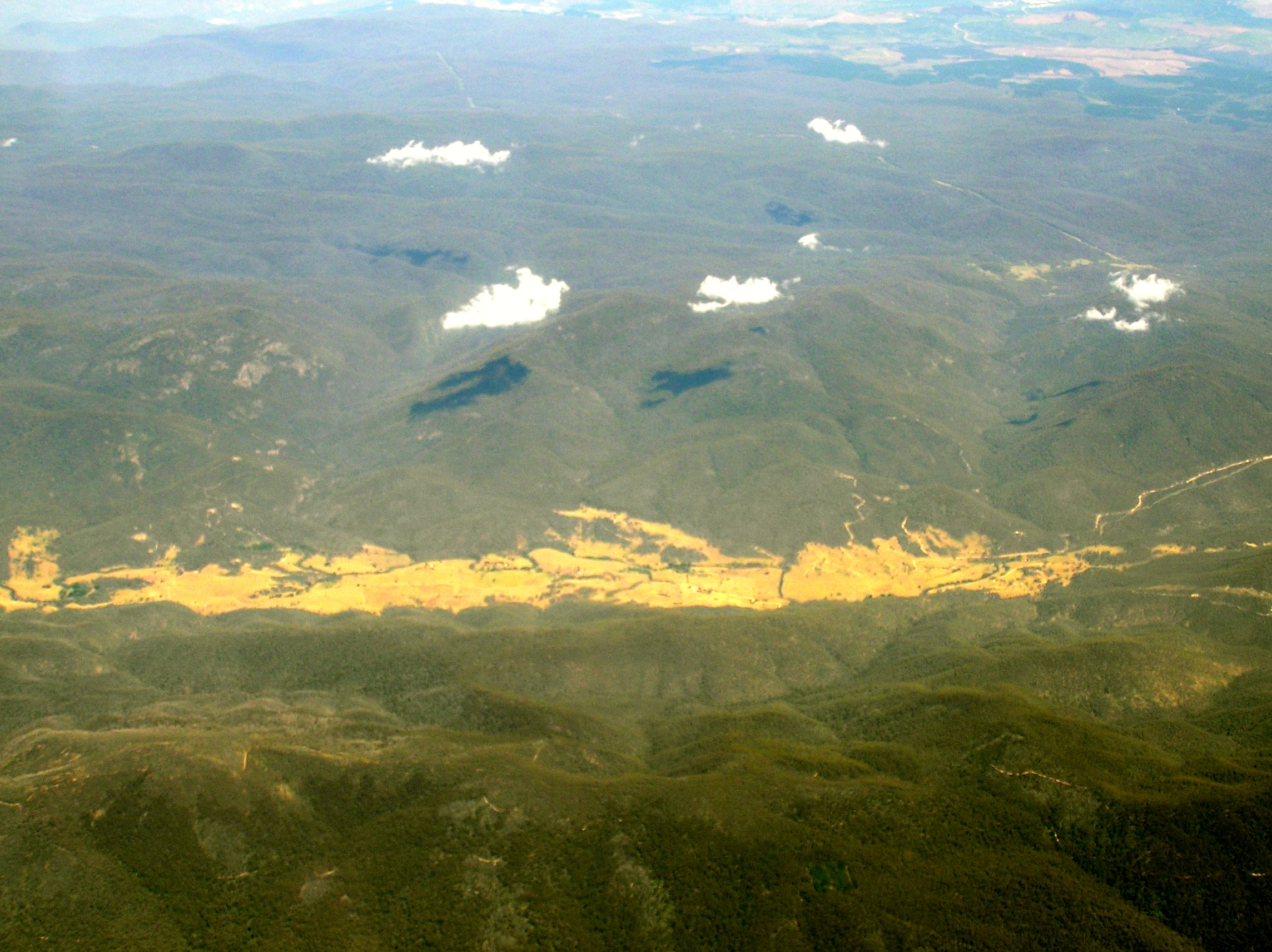 Brindabella Velley looking from east over the Brindabella ranges